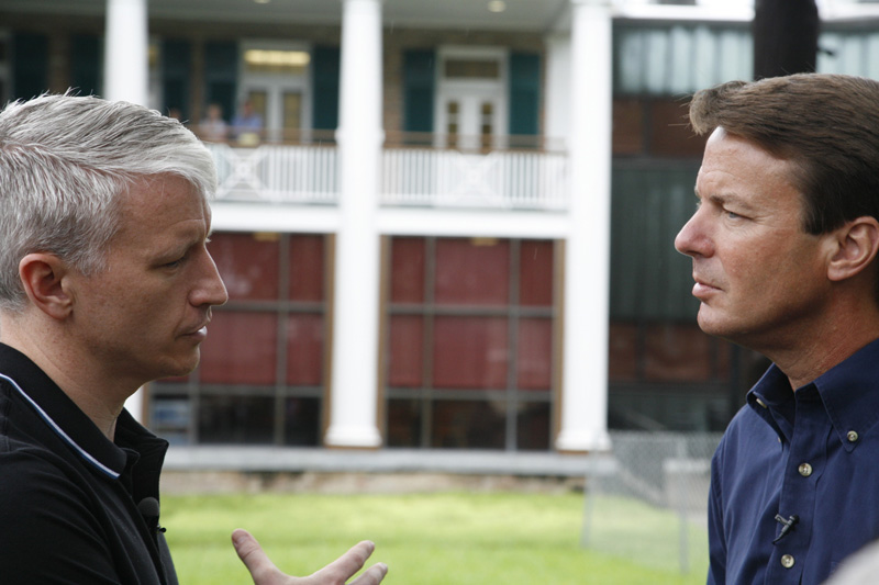 Television reporter/commentator Anderson Cooper (left) and former Senator/presidential candidate John Edwards, in New Orleans. Photo by Rachel Feierman